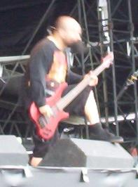 Cropped from this image